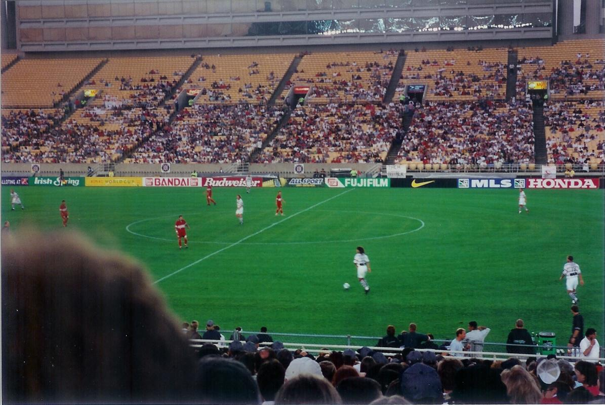 A view from midfield at Soldier Field as the Chicago Fire and Dallas Burn compete in a Major League Soccer match.